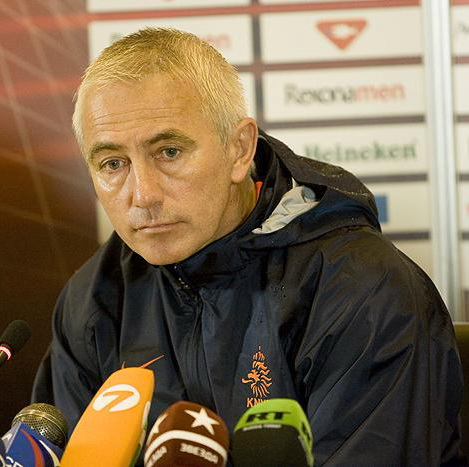 Bert van Marwijk